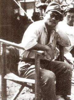 Lieutenant Commander Iyozoh Fujita, Imperial Japanese Navy Air Force (1944)